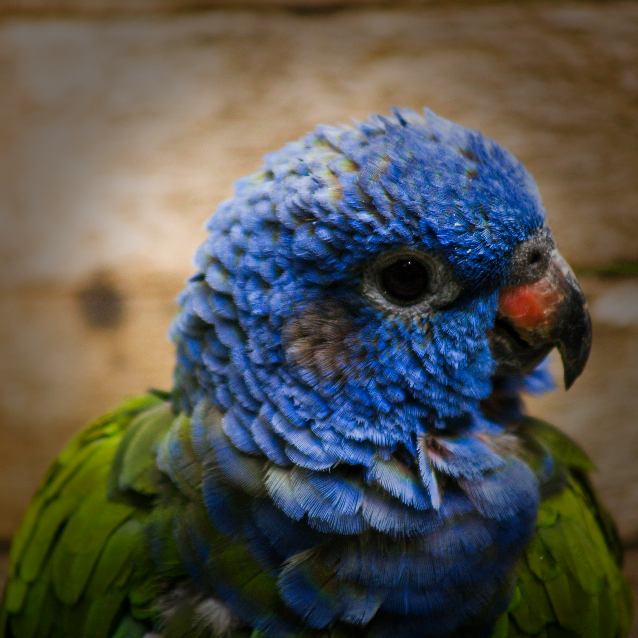 Blue-headed Parrot (also known as the Blue-headed Pionus) at La Senda Verde Animal Refuge, Yolosa, Bolivia.